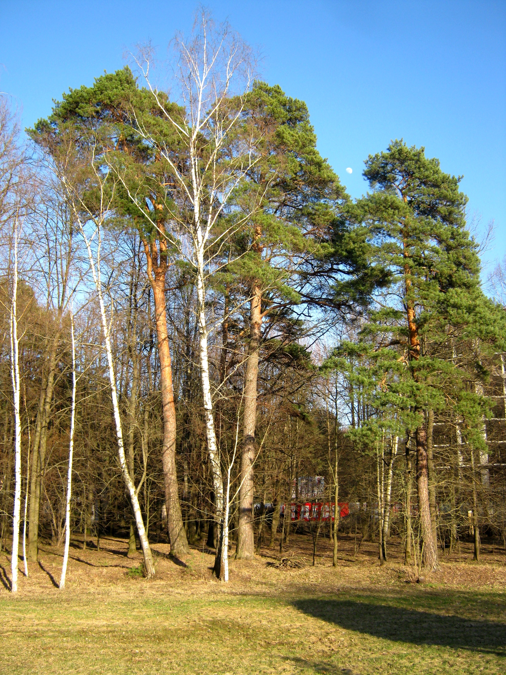 Сосны в Введенском (Звенигород)